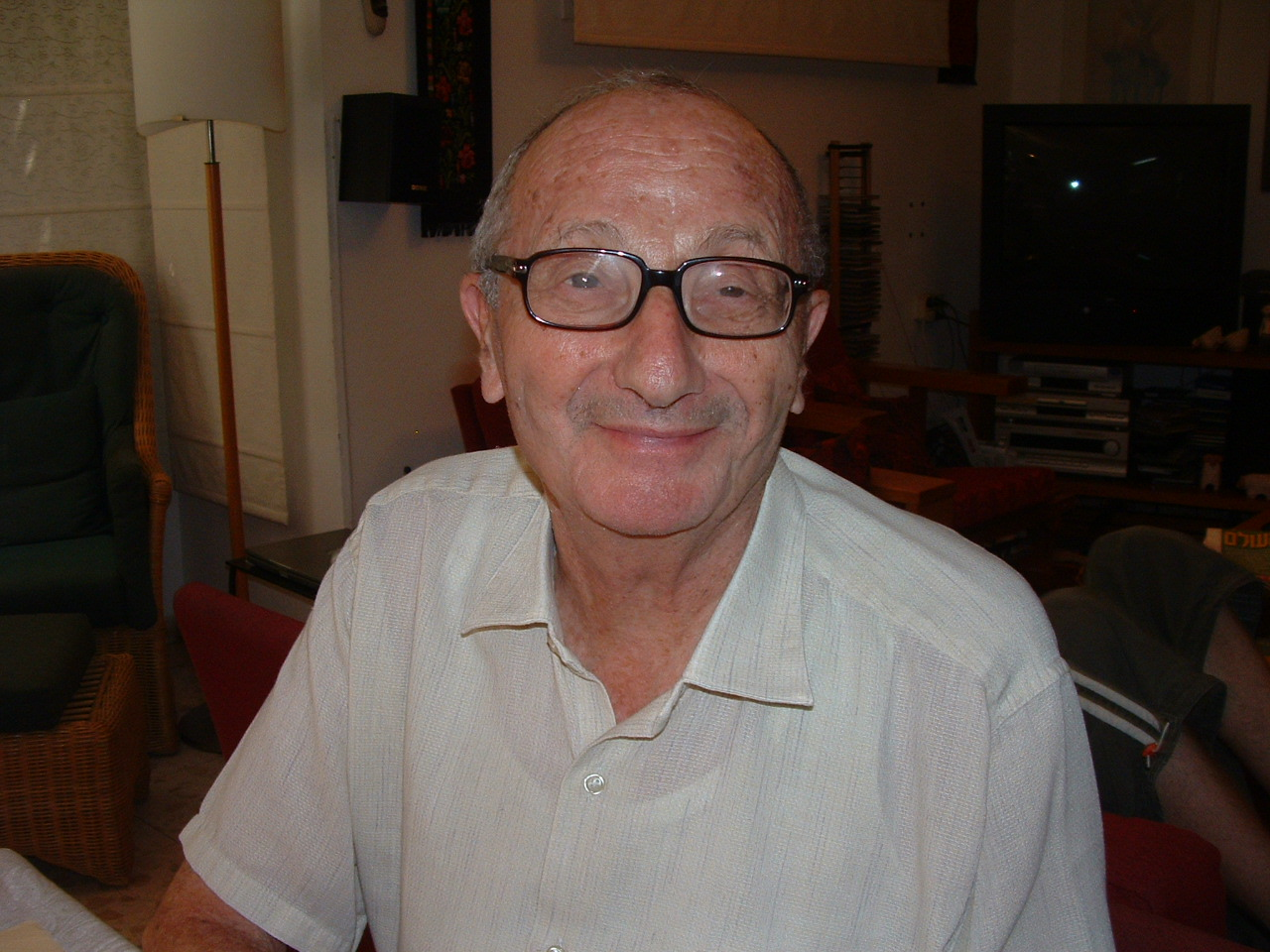 Israel-Yeivin-photo